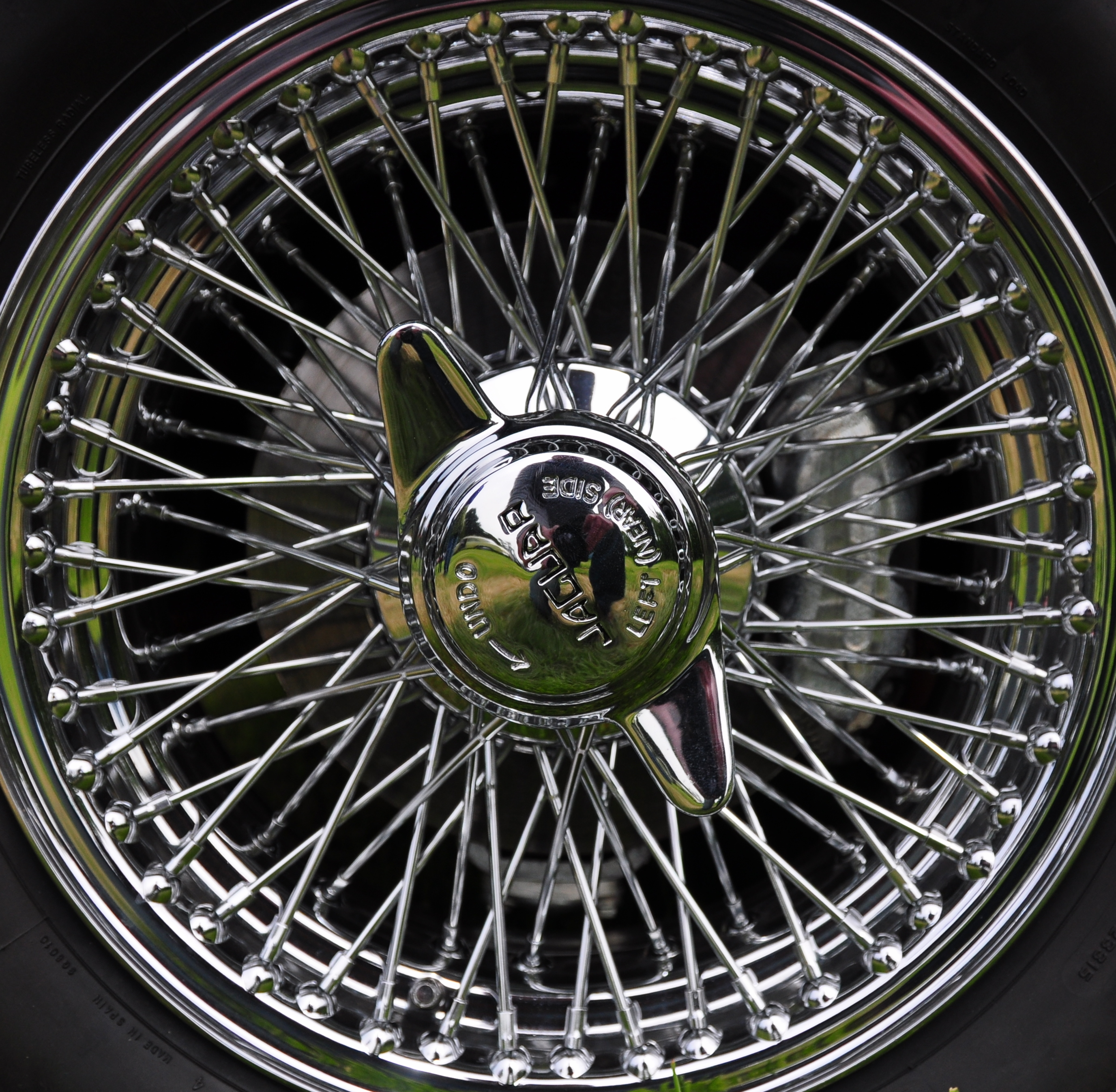 A wire wheel on a Jaguar at the classic car show at Killerton House.